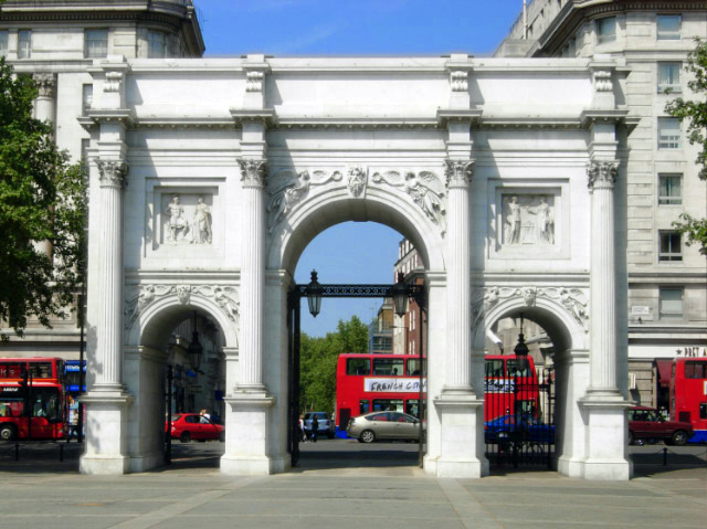 Marble Arch This grand edifice stands in the centre of one of London's busiest road junctions, where Oxford Street, Park Lane, Bayswater Road and Edgware Road meet. It was designed by John Nash in 1828 as a gateway to Buckingham Palace, but was removed to its present site in 1851. It is built of white Carrara marble, the design taken from the triumphal arch of Constantine in Rome.